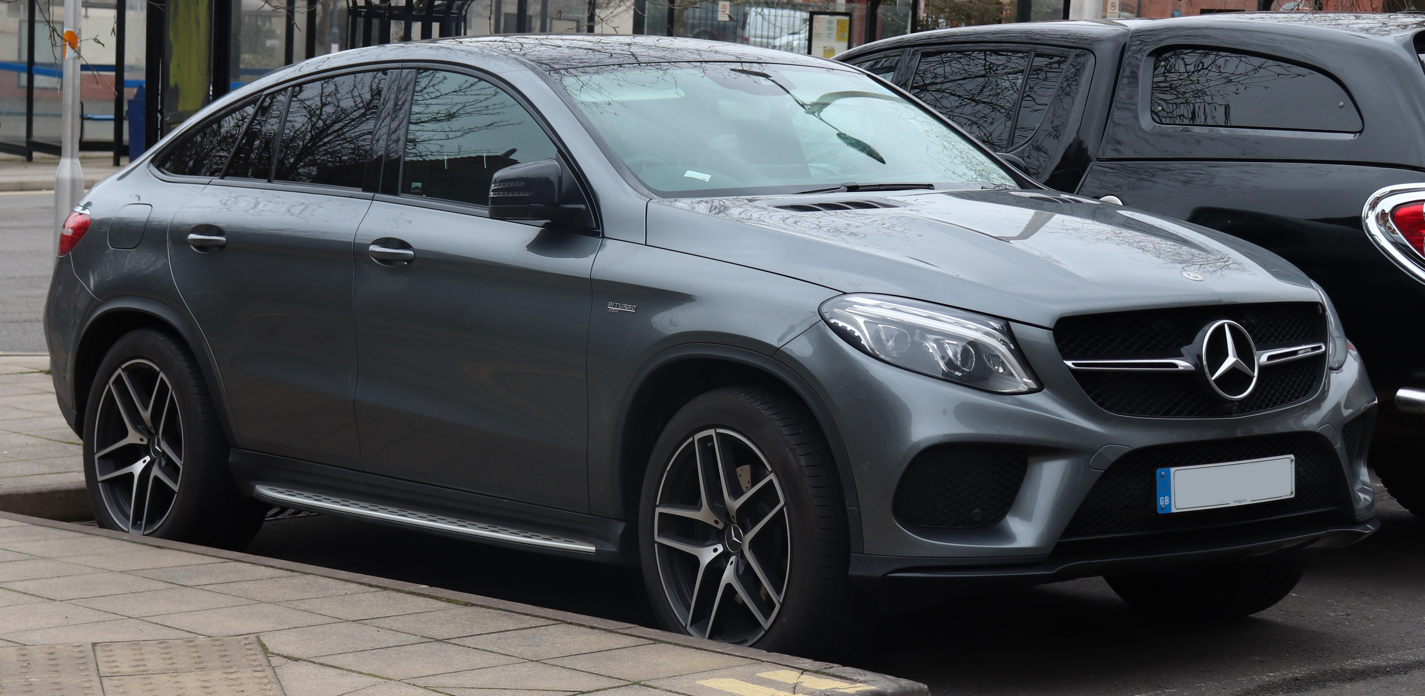 2018 Mercedes-AMG GLE 43 Premium 4MATIC 3.0 Front Taken in Warwick